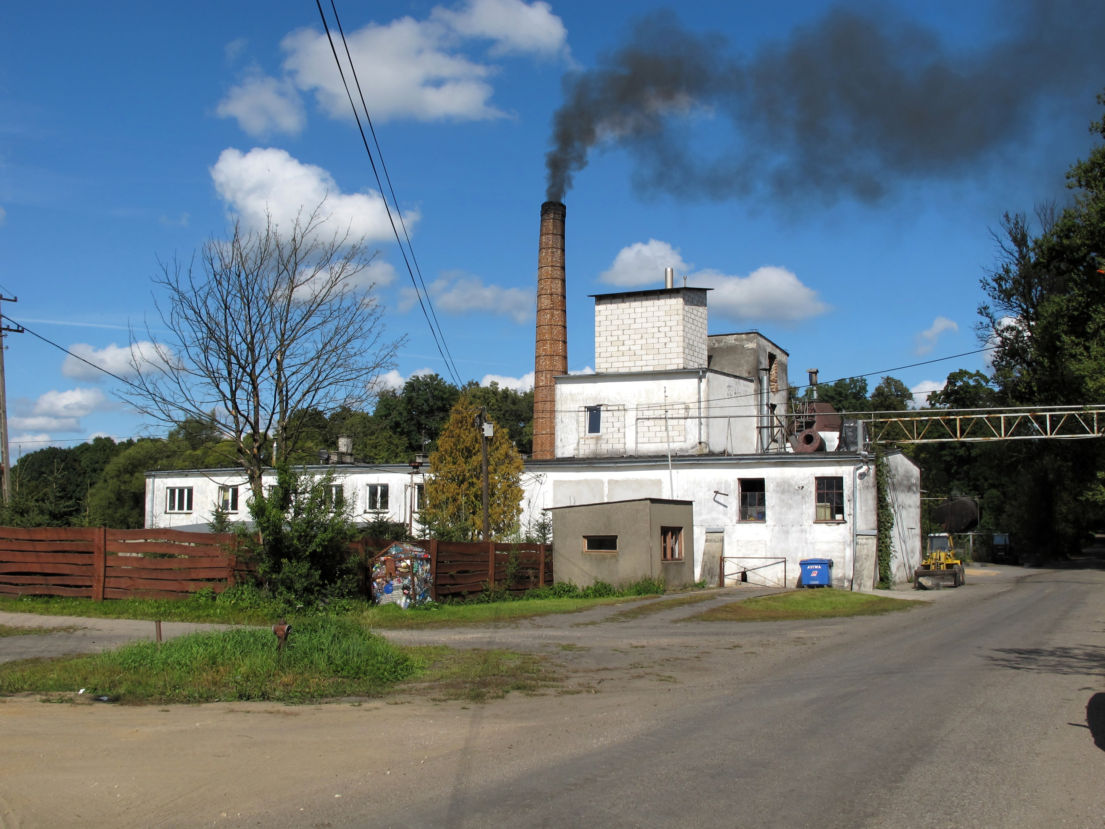 Distillery in Gabrysin, gmina Poświętne, podlaskie, Poland